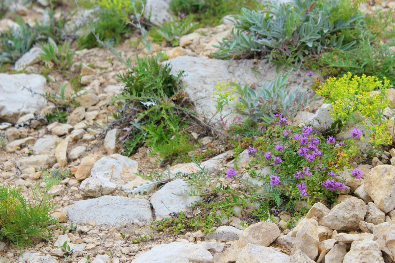 kamennye stepi